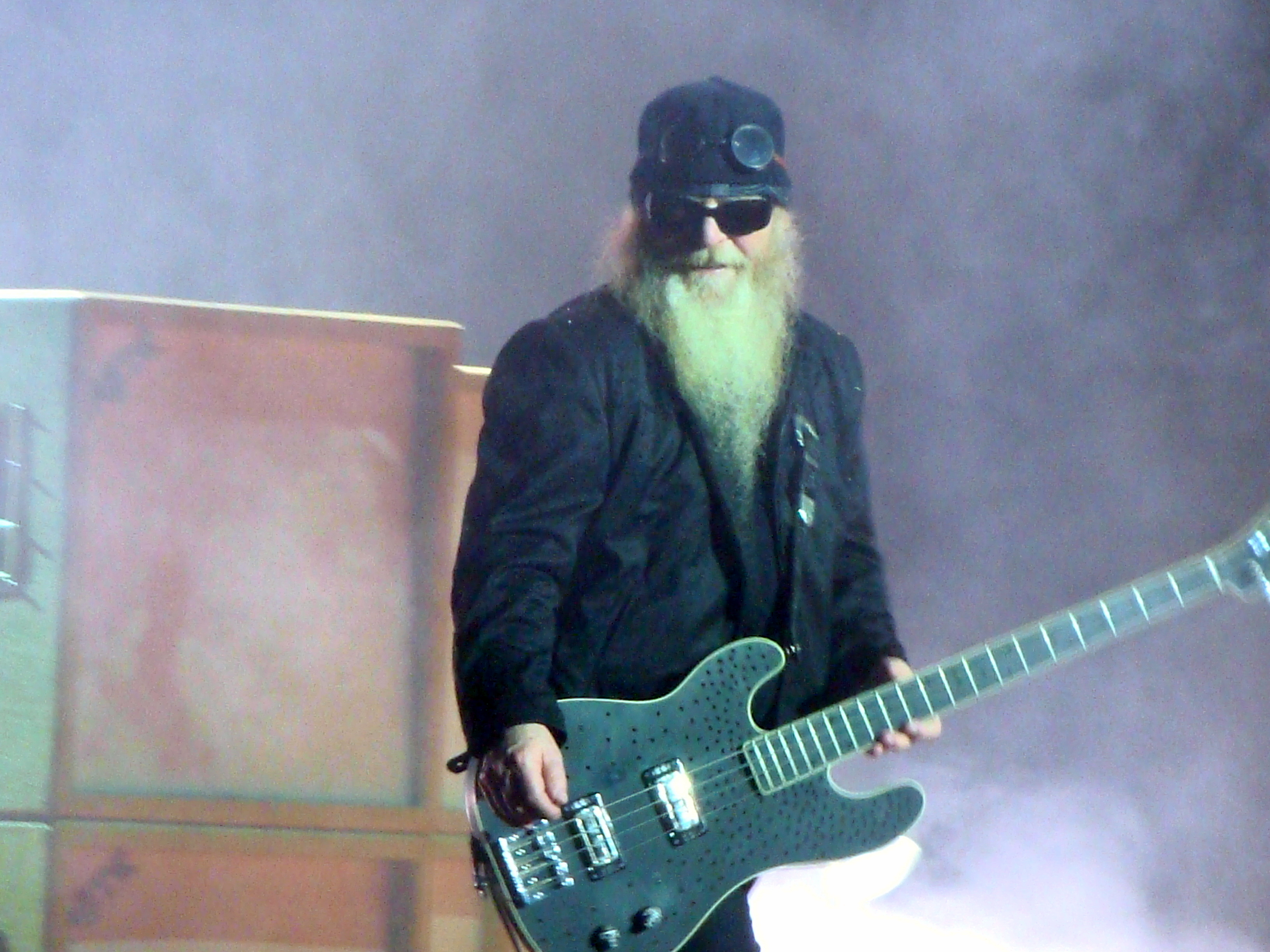 Dusty Hill in Concert in 2008